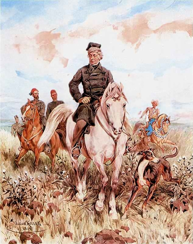 Adam Mickiewicz with Sadik Pasha in Turkey